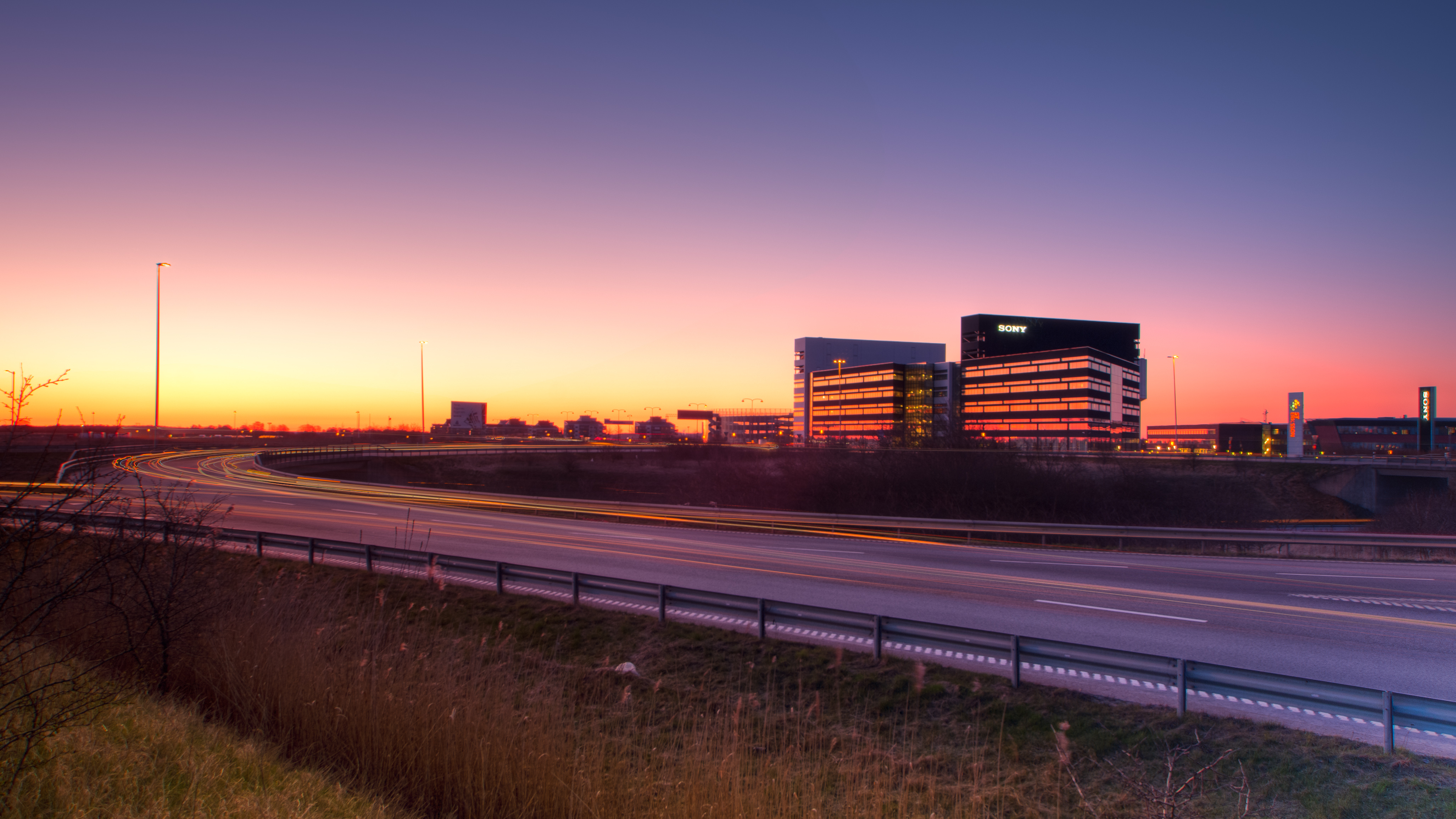 Sony Mobile Headquarter in Lund